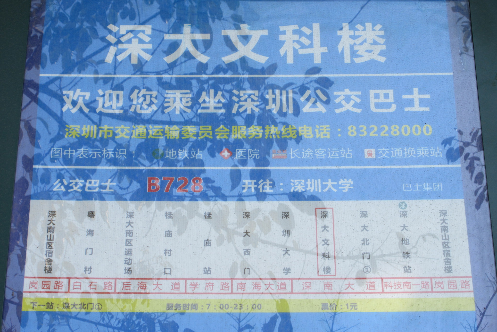 深圳公交B728路, SZ 深圳大學 Shenzhen University 南山區 Nanshan campus in Feb 2017